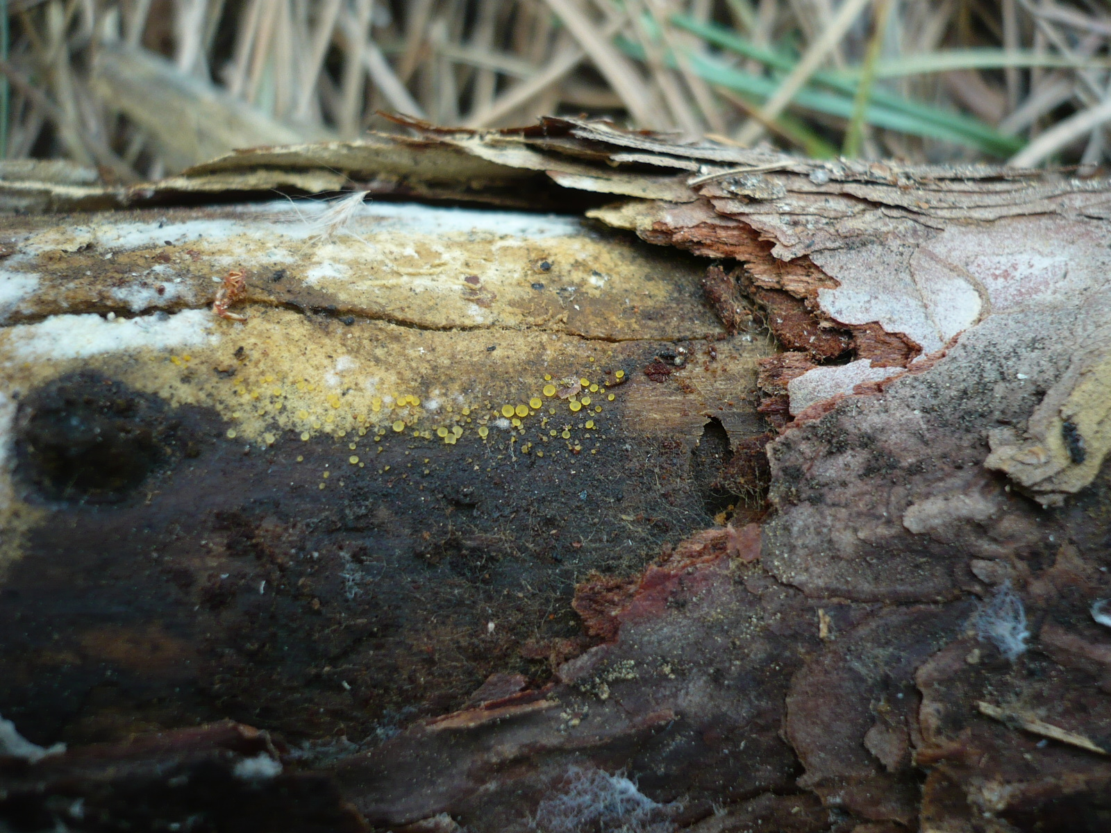 Orbilia xanthostigma (Fr.) Fr. Photographed in Steinereben, Dreistetten, Bezirk Wiener Neustadt, Austria